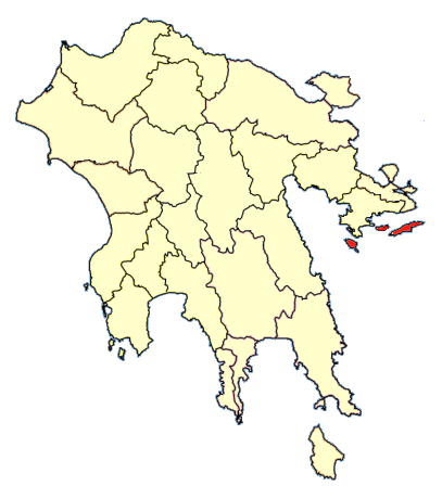 Hydra province